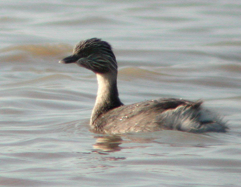 Hoary-headed Grebe (Poliocephalus poliocephalus) Alice Springs, NT, Australia